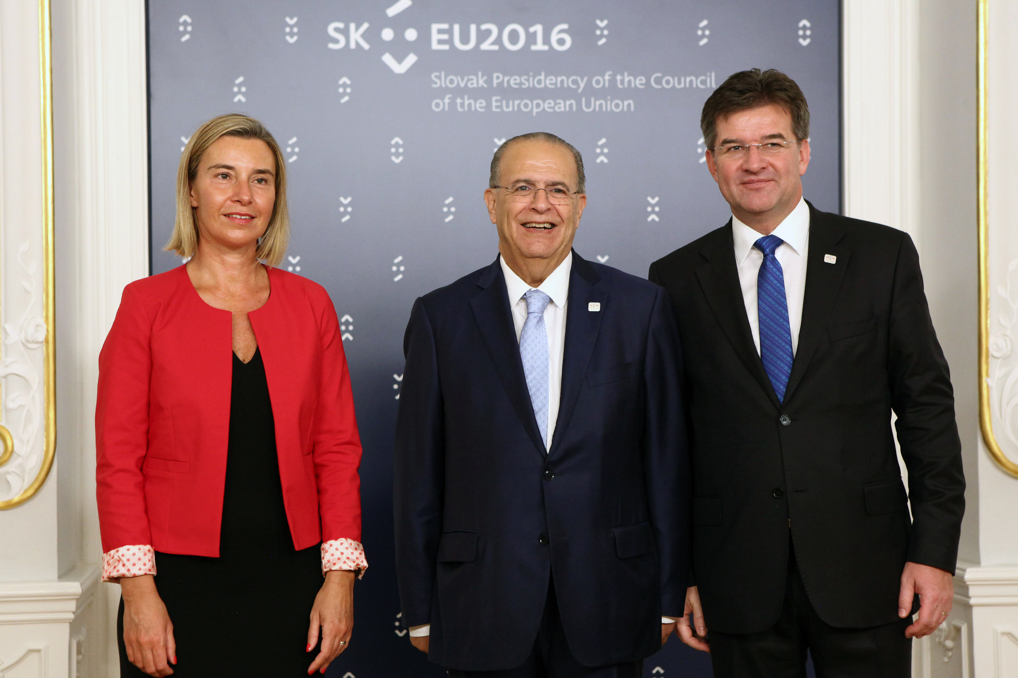 Mrs. Federica Mogherini, European external Action Service, High Representative of the Union for Foreign Affairs and Security Policy/Vice- President of the Commission (L), Cyprus, Mr. Ioannis Kasoulides, Minister of foreign Affairs of the Republic of Cyprus (C), Slovakia, Mr. Miroslav Lajcak, Minister of foreign and European Affairs (R) Informal Meeting of foreign Affairs Ministers (Gymnich) Photo: Andrej Klizan